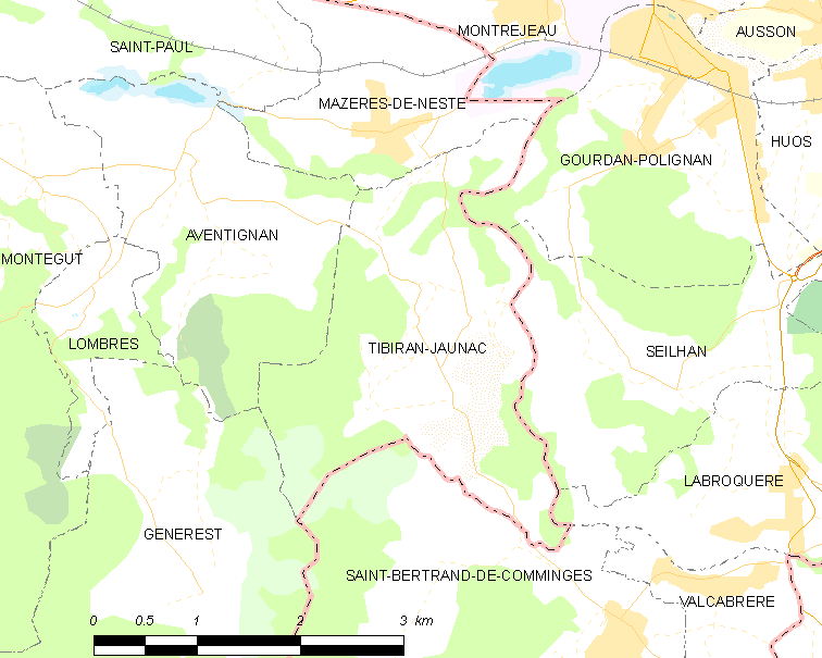 Map of French municipality